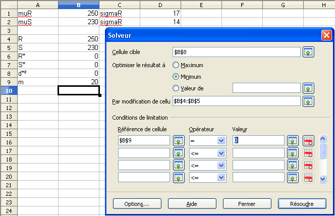 Solver of LibreOffice Calc 3.5.4.2 for a quadratic optimisation.